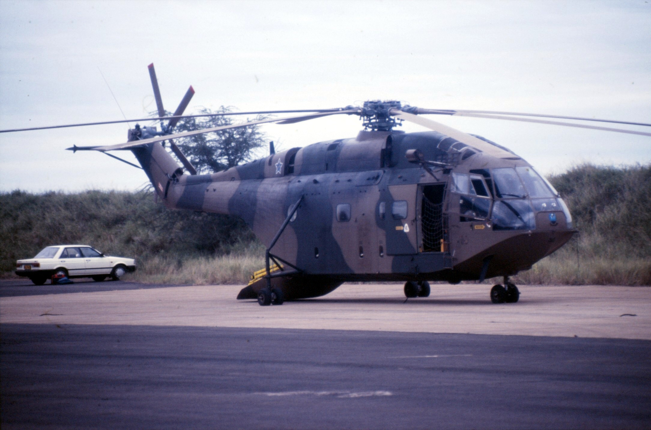 Super Frelon no. 313 at Hell's Gate